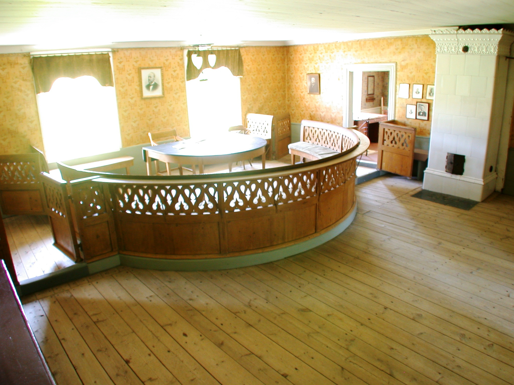 Långelanda court house, Årjäng, Sweden